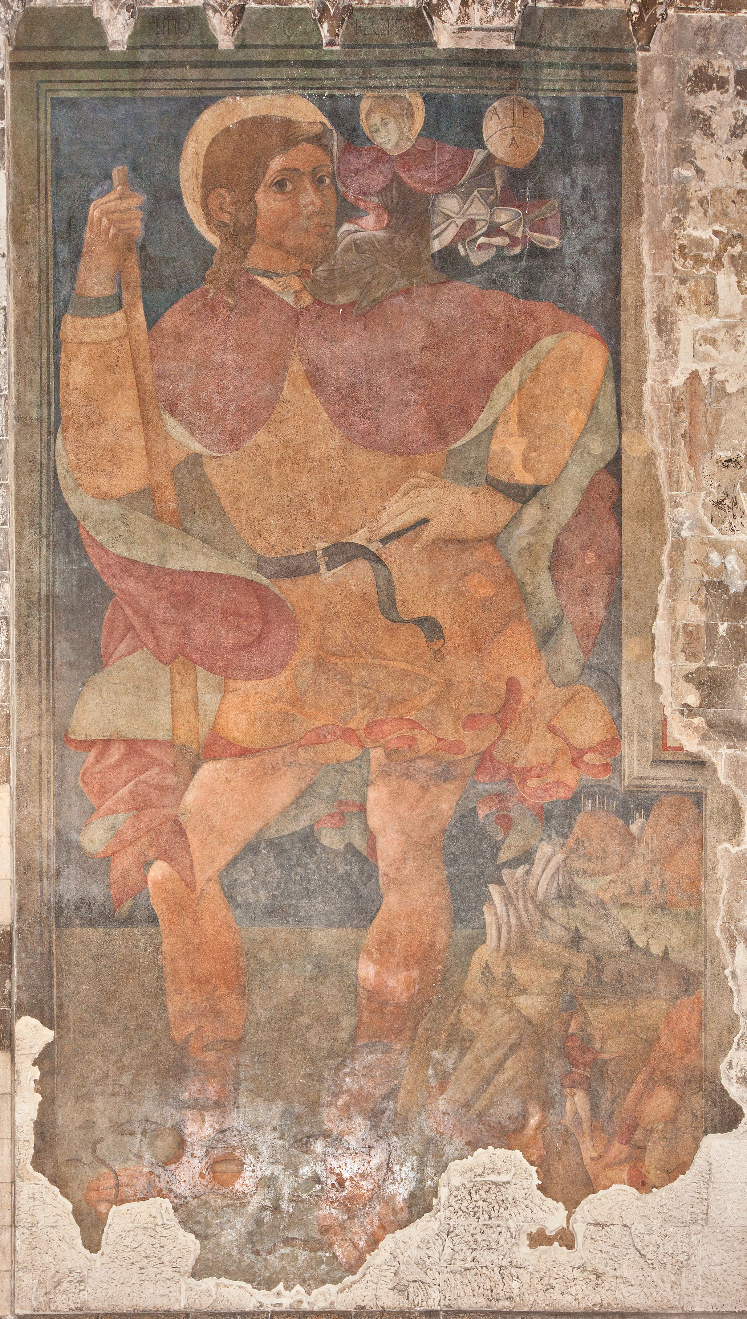 The fresco of Chistophorus, 1473 by Andrea Litio, under the portico of the south wall of the Santa Maria Maggiore church in Guardiagrele, IT